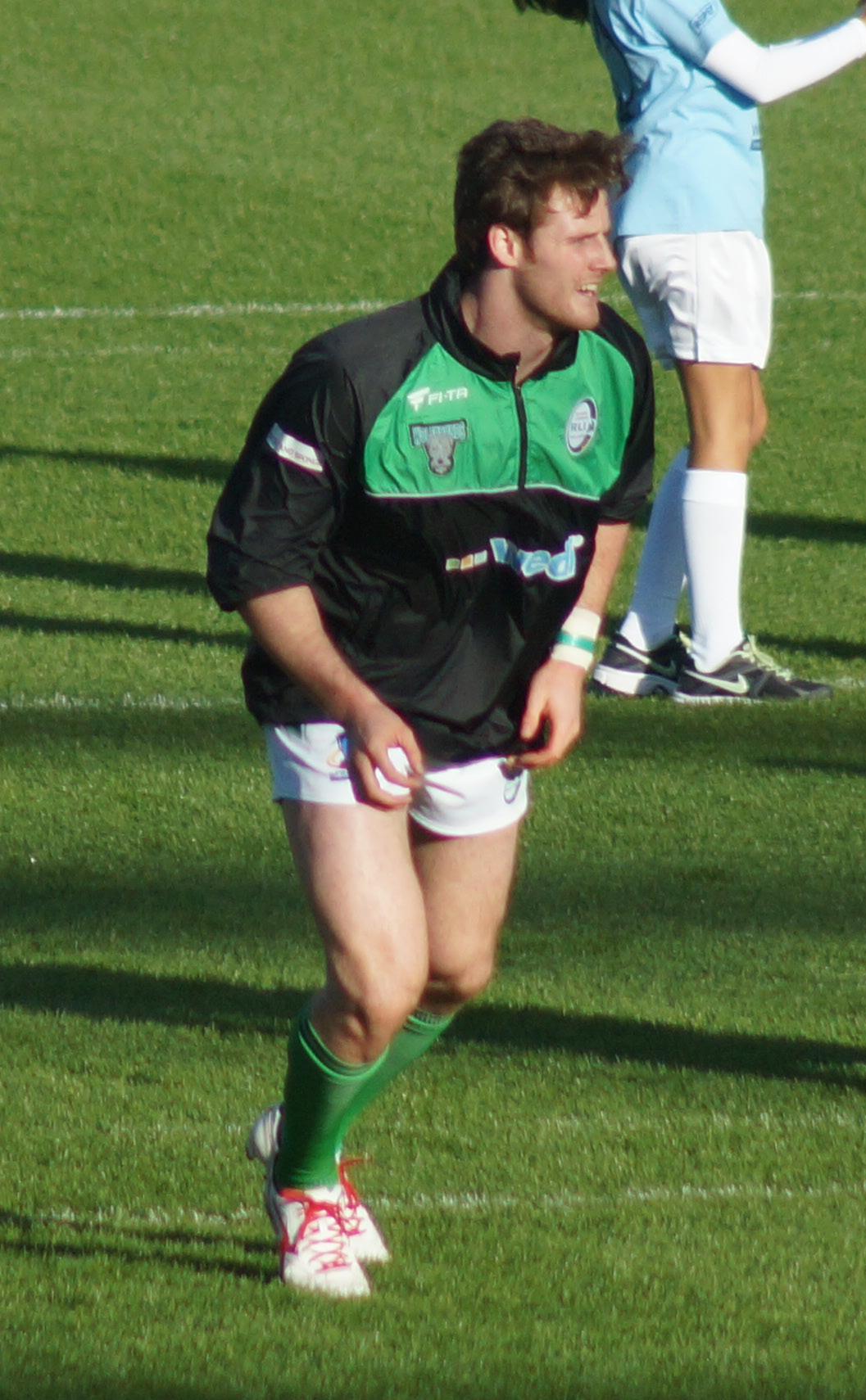 Irish players Anthony Mullally and Joshua Toole at warm-up before 2013 Rugby League World Cup match between England and Ireland at John Smith's Stadium, Huddersfield.